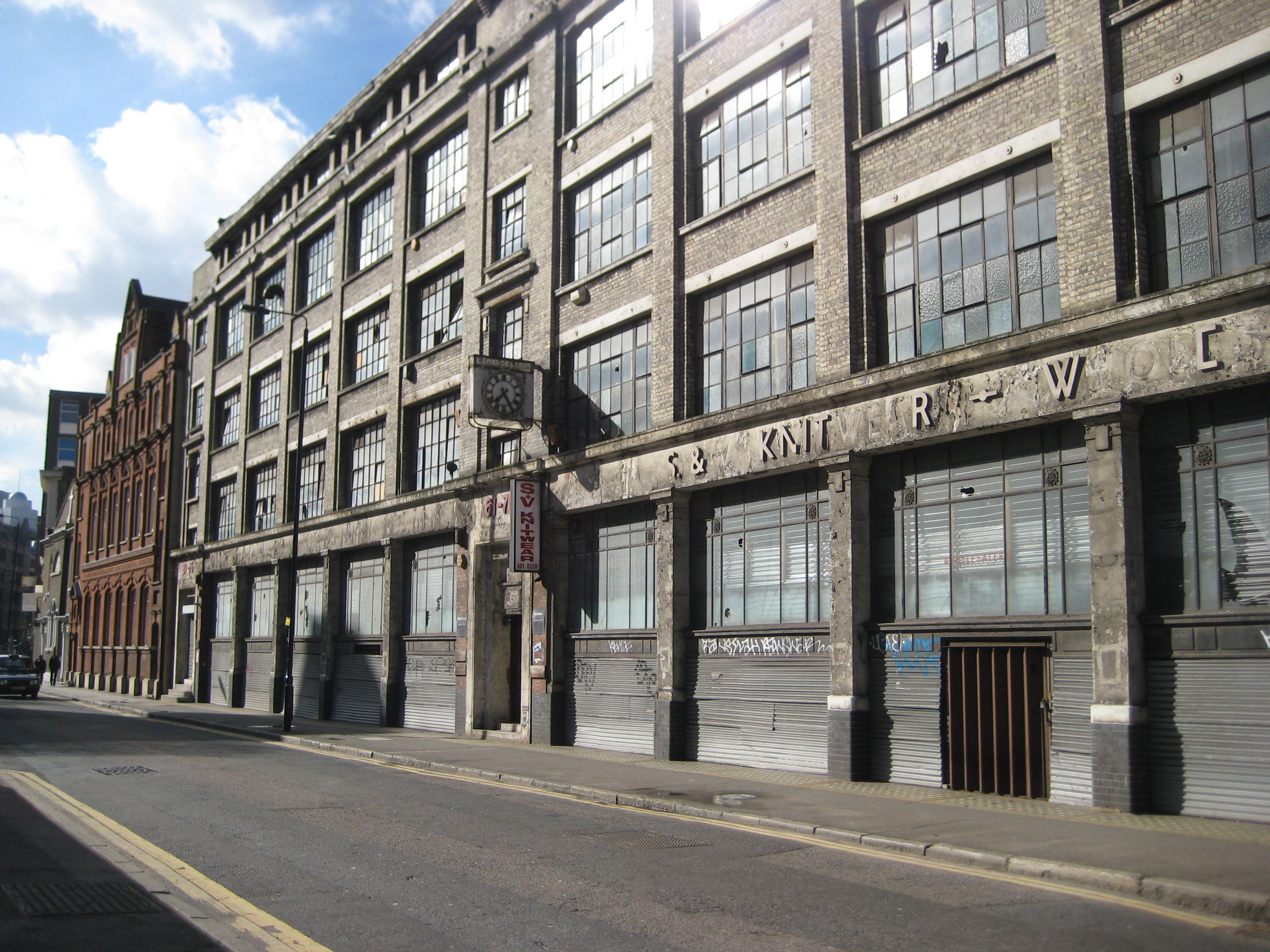 Disused factory, Alie Street E1 This used to be S+V Knitwear "sweat shop", 61-75 Alie Street. It looks to have been closed for a good while.